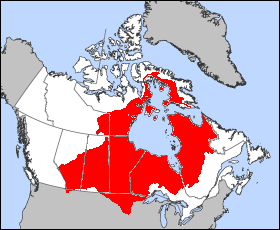 Bassin versant de la baie d'Hudson. Modification de Nelson-bassin.PNG. Watershed of Hudson Bay. Modification of Nelson-bassin.PNG.